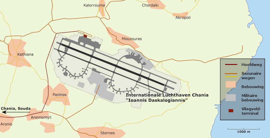 Overview of Chania Airport and the surrounding. The civil apron is situated in the northeast corner of the airport.